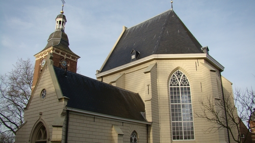 Church of Terborg (Netherlands)